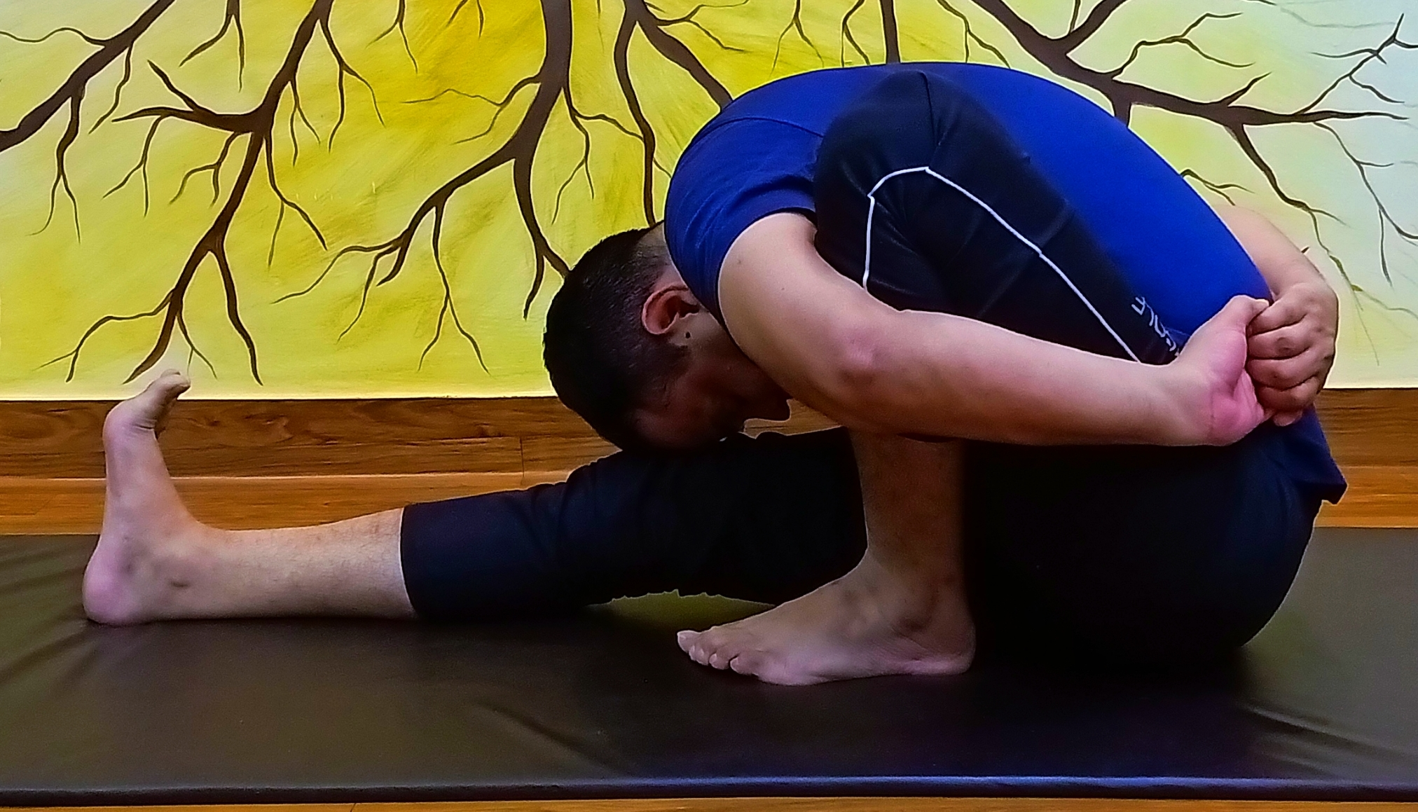 Marichyasana...